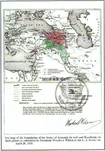 The Decision of The President of The United States of America Woodrow Wilson. Note the signature of President Wilson, And The Great Seal of The United States of America, Which means that Wilson's Arbitration Award Became The "Law of Land".